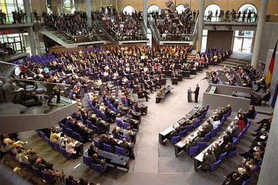 US-President George W. Bush addresses a special session of the Bundestag, the German Parliament, in the Reichstag in Berlin on May 23, 2002. On the right hand side of the photo in the back, the seats of the German Federal Government, in front, the seats of the Bundesrat representatives, the German Federal Council. In the middle, the booth of the parliament's president. On the left, the parliament's members, grouped in a circle around the post for the current speaker. Above them on the balconies, the public.